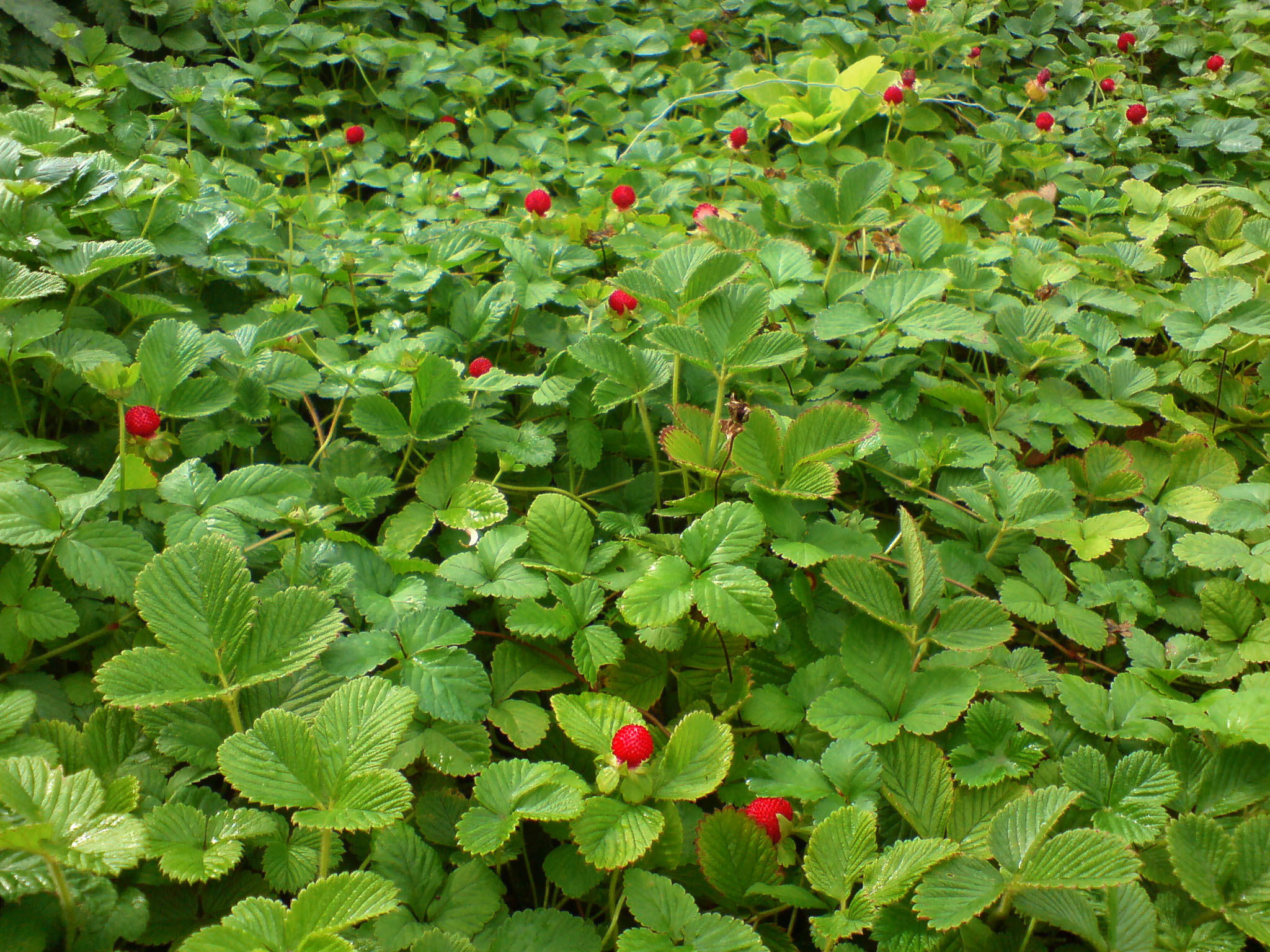 Potentilla indica (Scheinerdbeere) - Botanischer Garten Leipzig